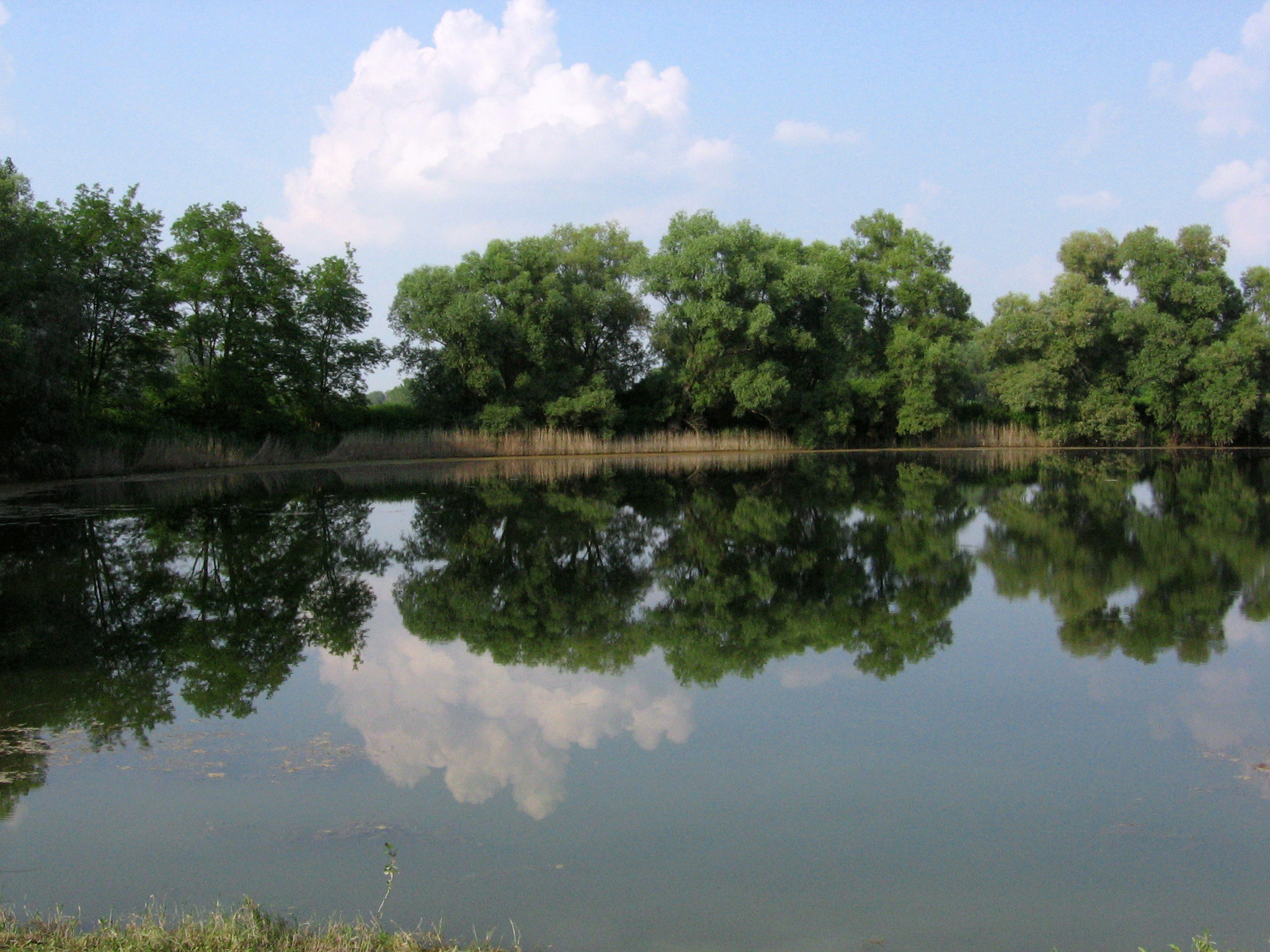 ambient nature of village Klucovec